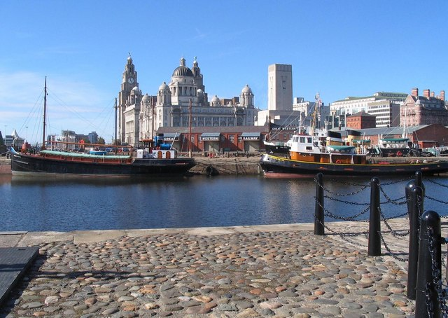 Liverpool's "Three Graces" from Canning Half-tide Dock Port of Liverpool Building, Cunard Building & Royal Liver Building viewed from Canning Half-tide Dock